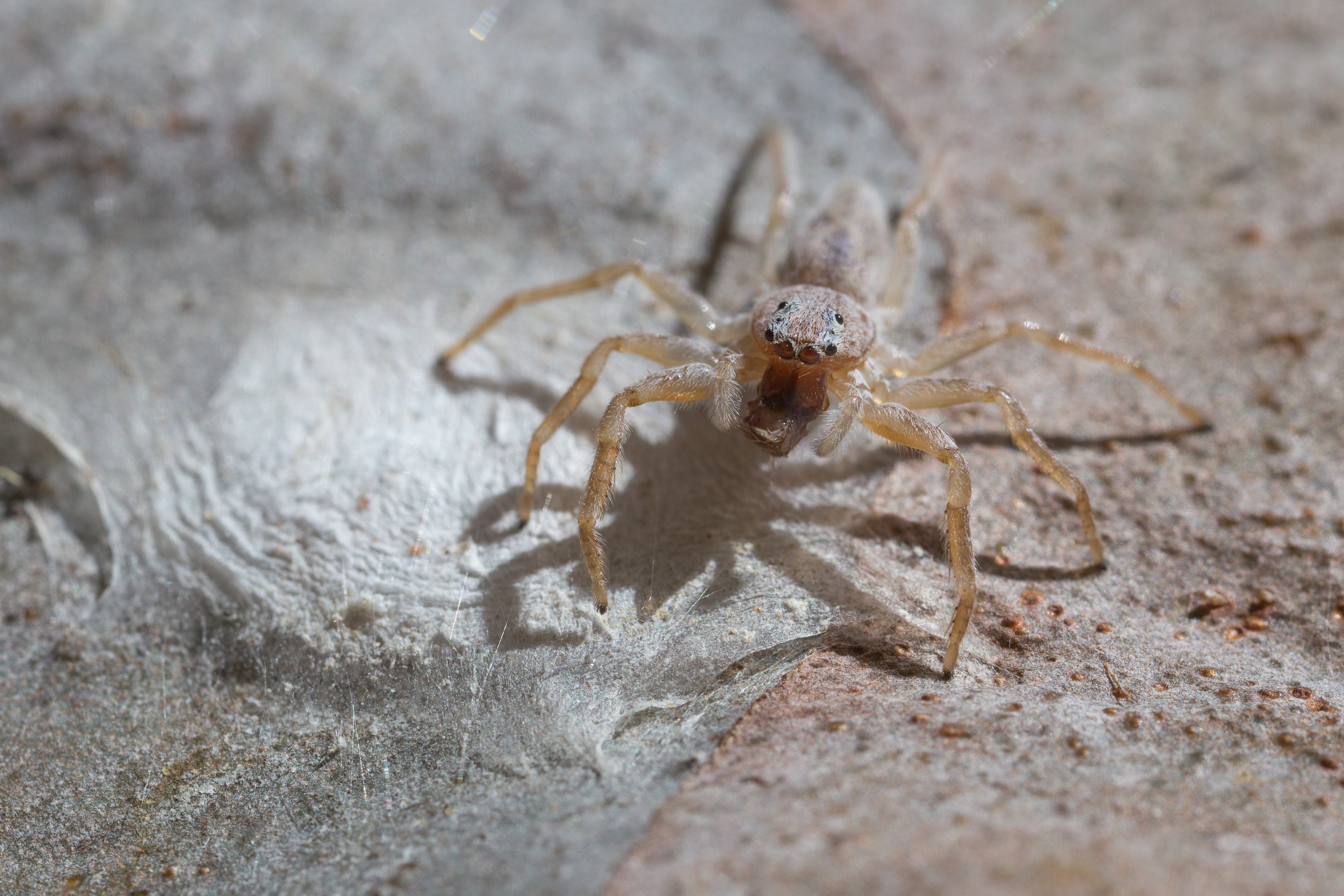 Flat-white Jumping Spider